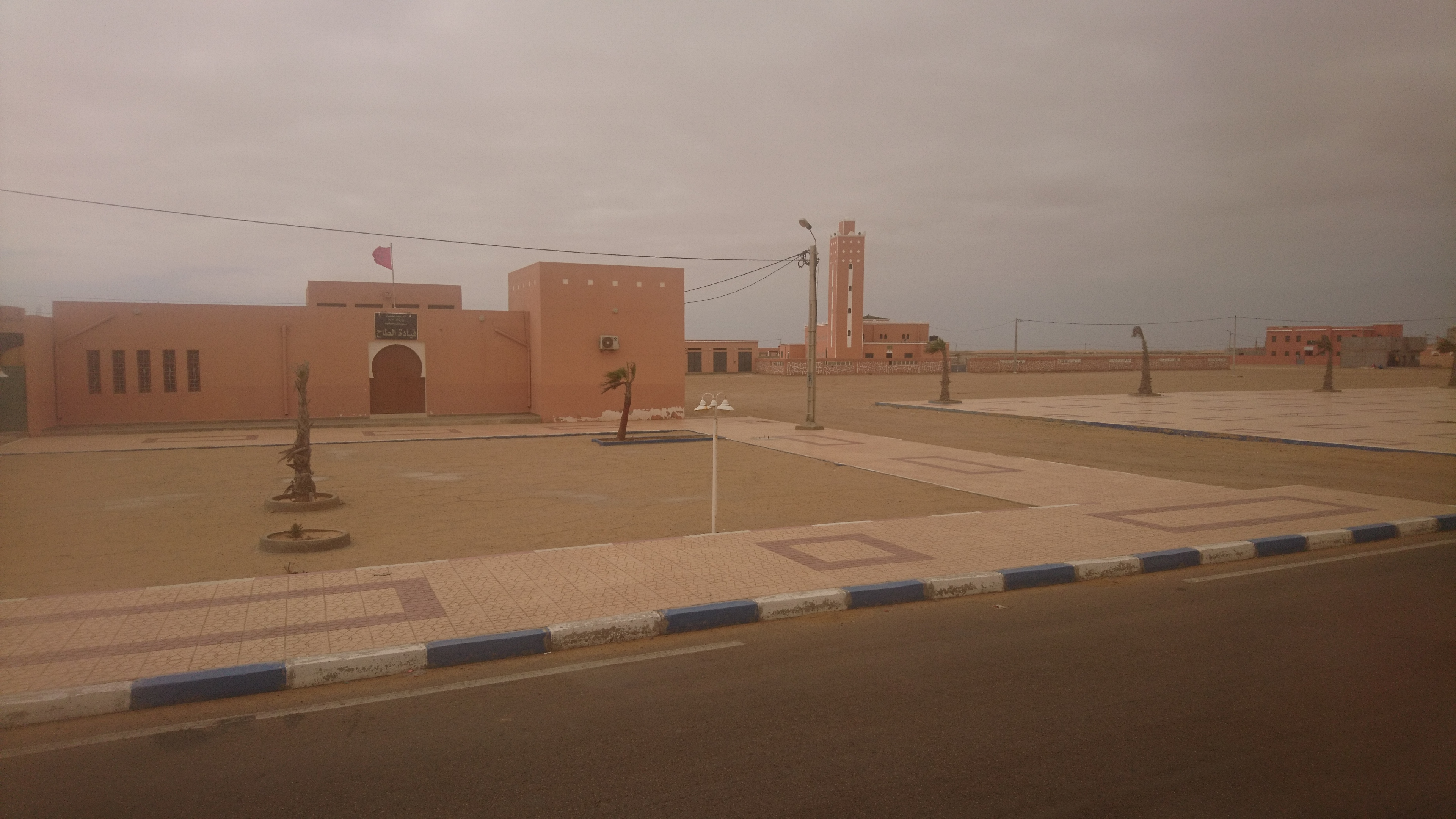 Municipality of Tah